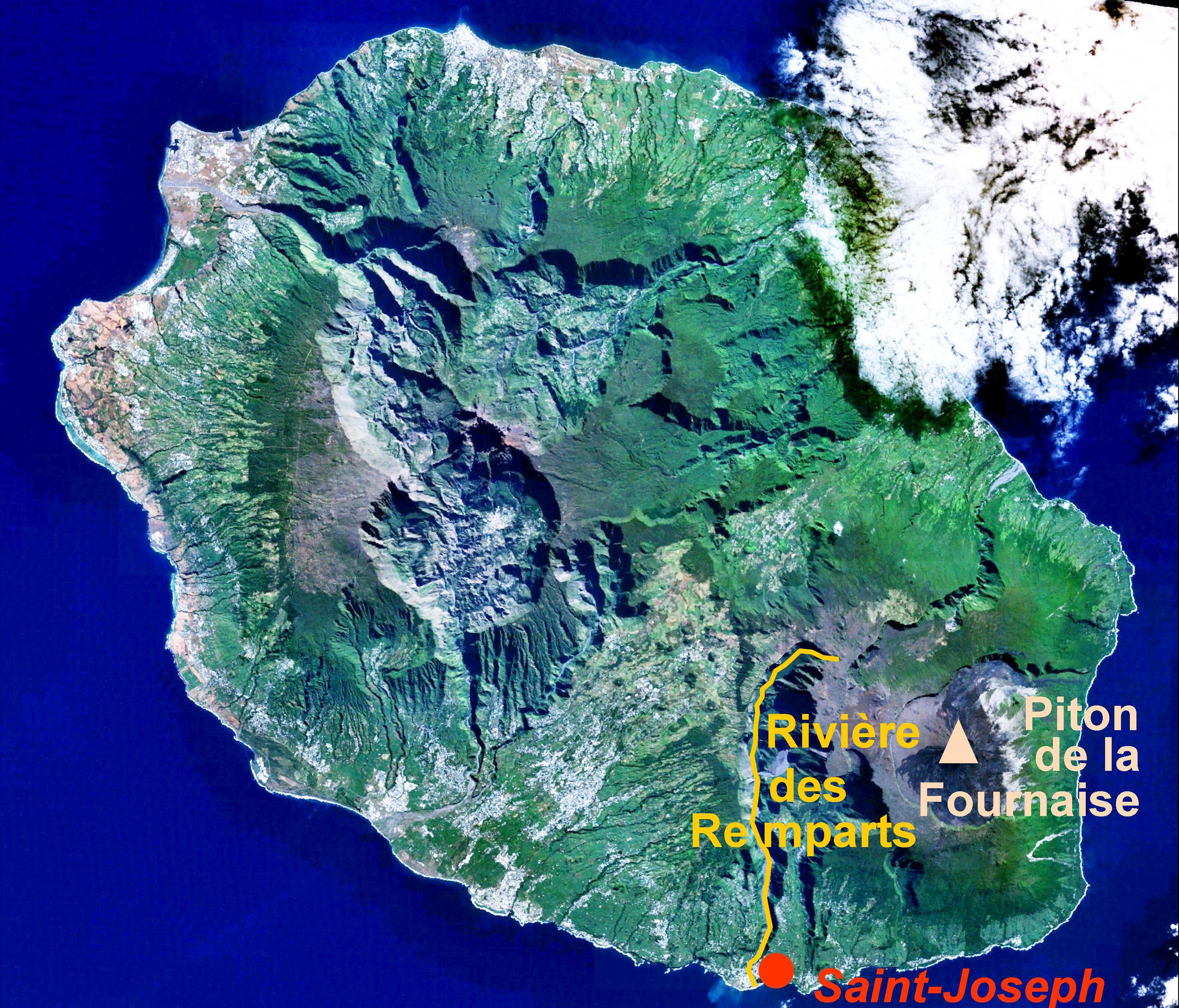 location of the Rivière des Remparts on a satellite view of Réunion island